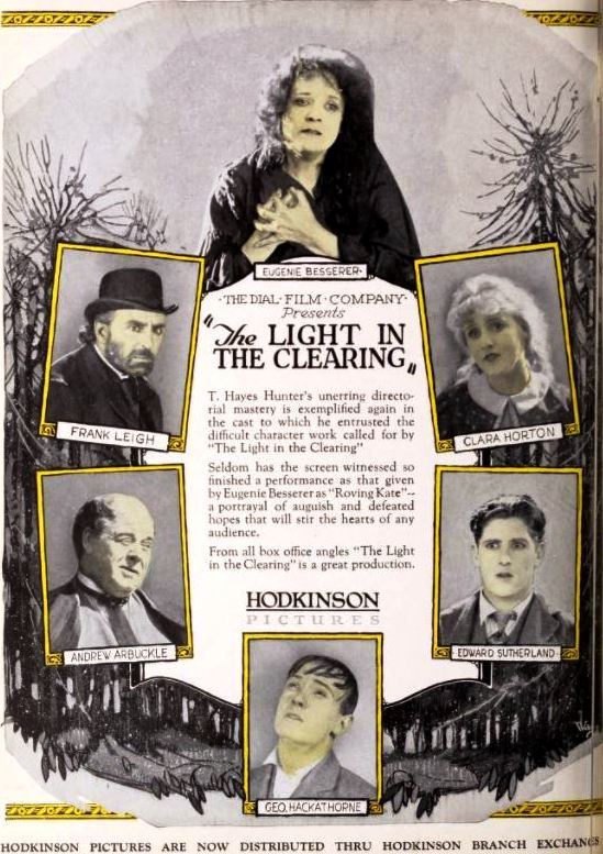 Advertisement for the American drama film The Light in the Clearing (1921) with Eugenie Besserer, Frank Leigh, Clara Horton, Andrew Arbuckle, A. Edward Sutherland, and George Hackathorne, from the insert after page 10 of the December 3, 1921 Exhibitors Herald.